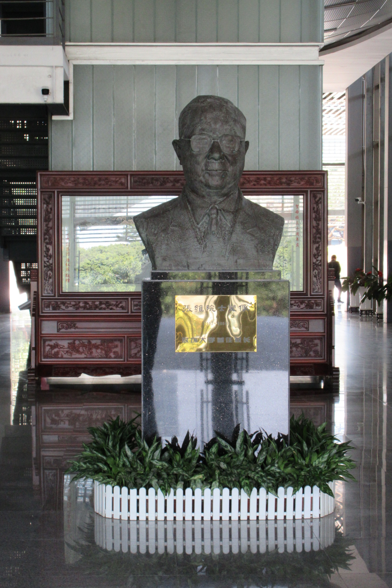 張維 (院士), bust at 深圳大學 Shenzhen University 南山區 Nanshan campus in Feb 2017